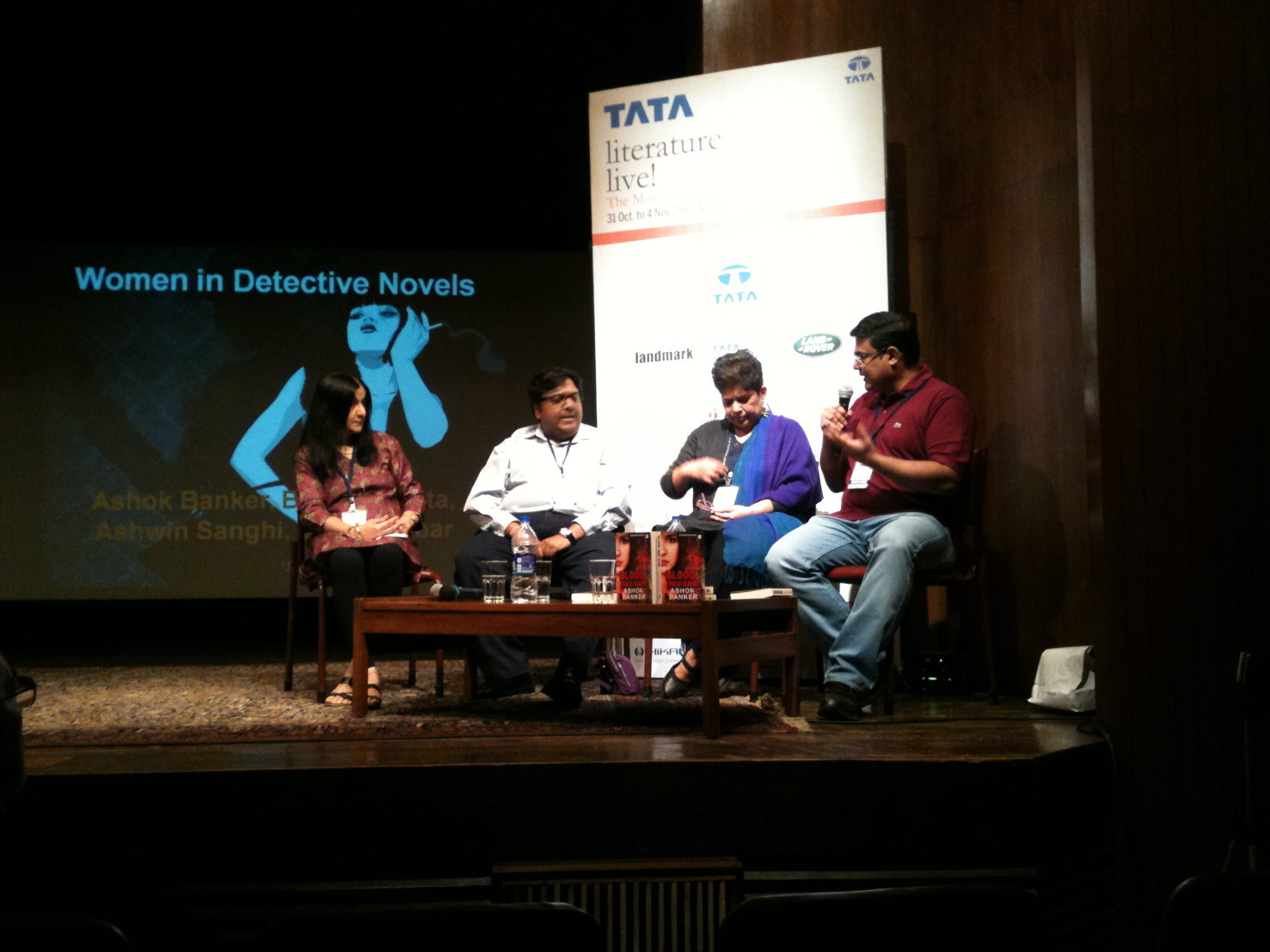 L to R: Vrinda Nabar, Ashwin Sanghi, Bishaka Datta, Ashok Banker